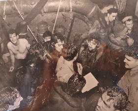 Commander Charles Lorain Carpenter, U.S. Navy (center right with moustache), just after being rescued after the light cruiser USS Helena (CL-50) was sunk in the Kula Gulf, Solomon Islands, on board the destroyer USS Nicholas (DD-449), 6 July 1943. Charles L. Carpenter later rose to the rank of Rear Admiral.